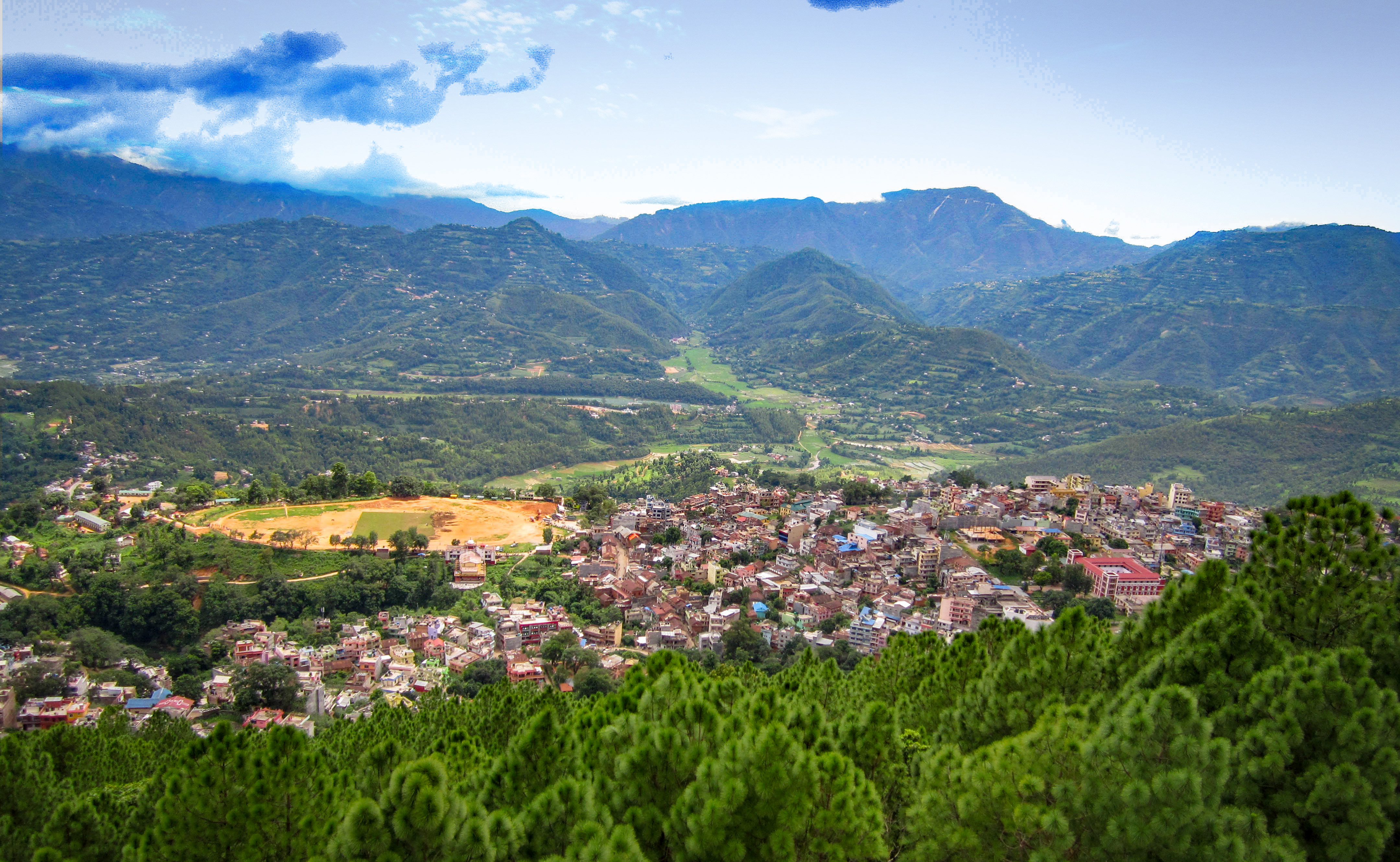 Srinagar Danda